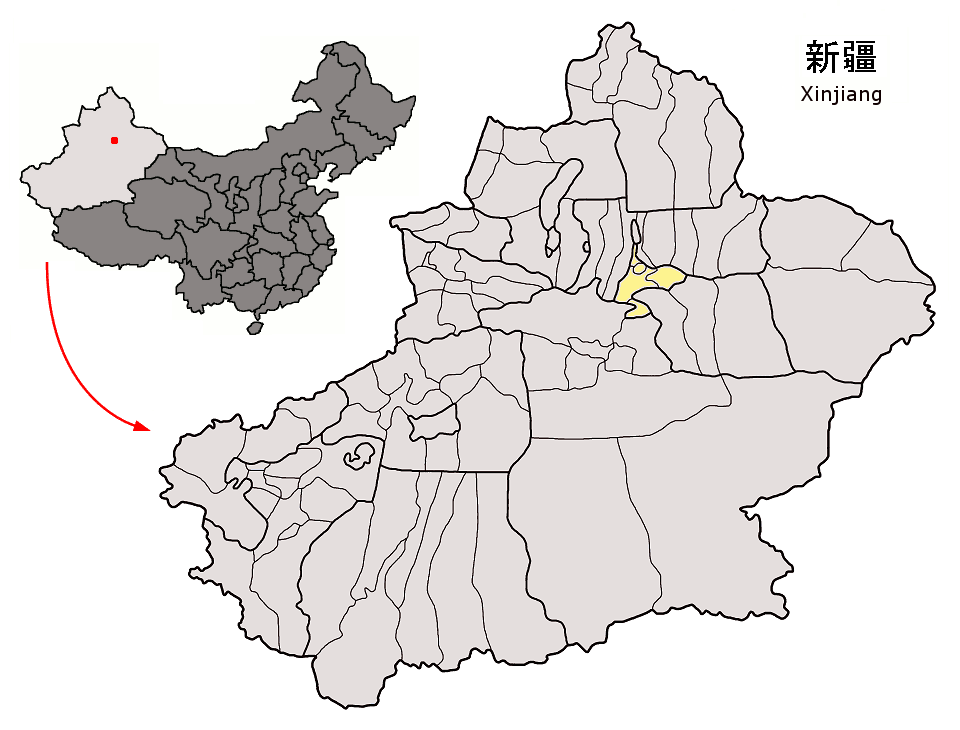 Location of Ürümqi Prefecture (yellow) within Xinjiang autonomous region of China Map drawn in september 2007 using various sources, mainly : Xinjiang Uygur autonomous region administrative regions GIS data: 1:1M, County level, 1990 Xinjiang Counties map from Urumqi Prefecture map from